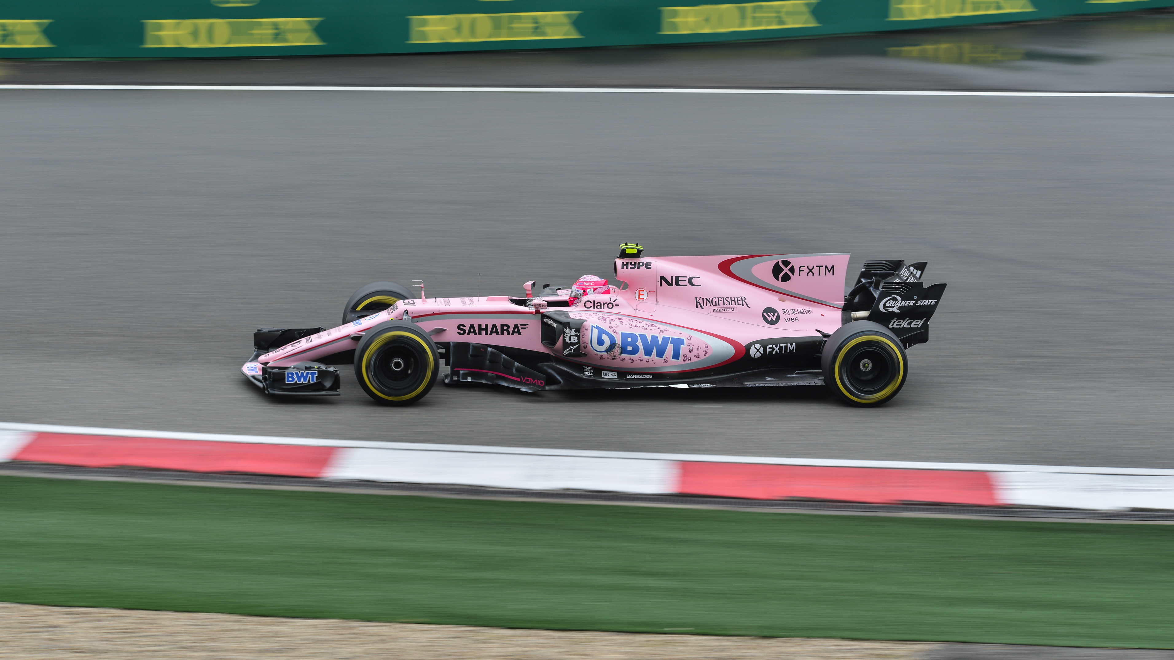 Esteban Ocon at the 2017 Chinese Grand Prix